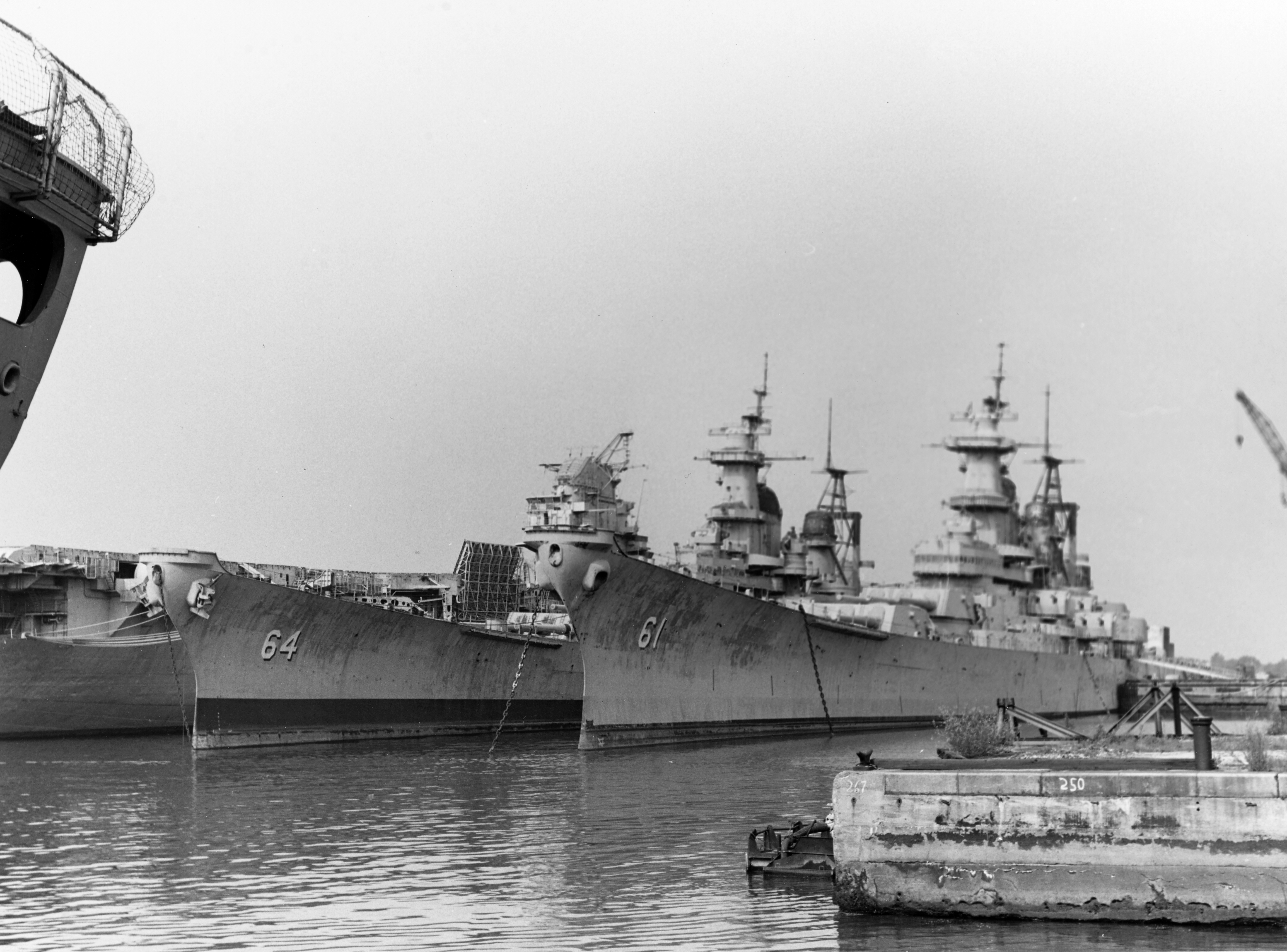 The battleships USS Iowa (BB-61) and USS Wisconsin (BB-64) in mothball storage at the Philadelphia Naval Shipyard, Pennsylvanina (USA), on 8 July 1978. Visible on the left is the aircraft carrier USS Shangri-La (CVS-38).